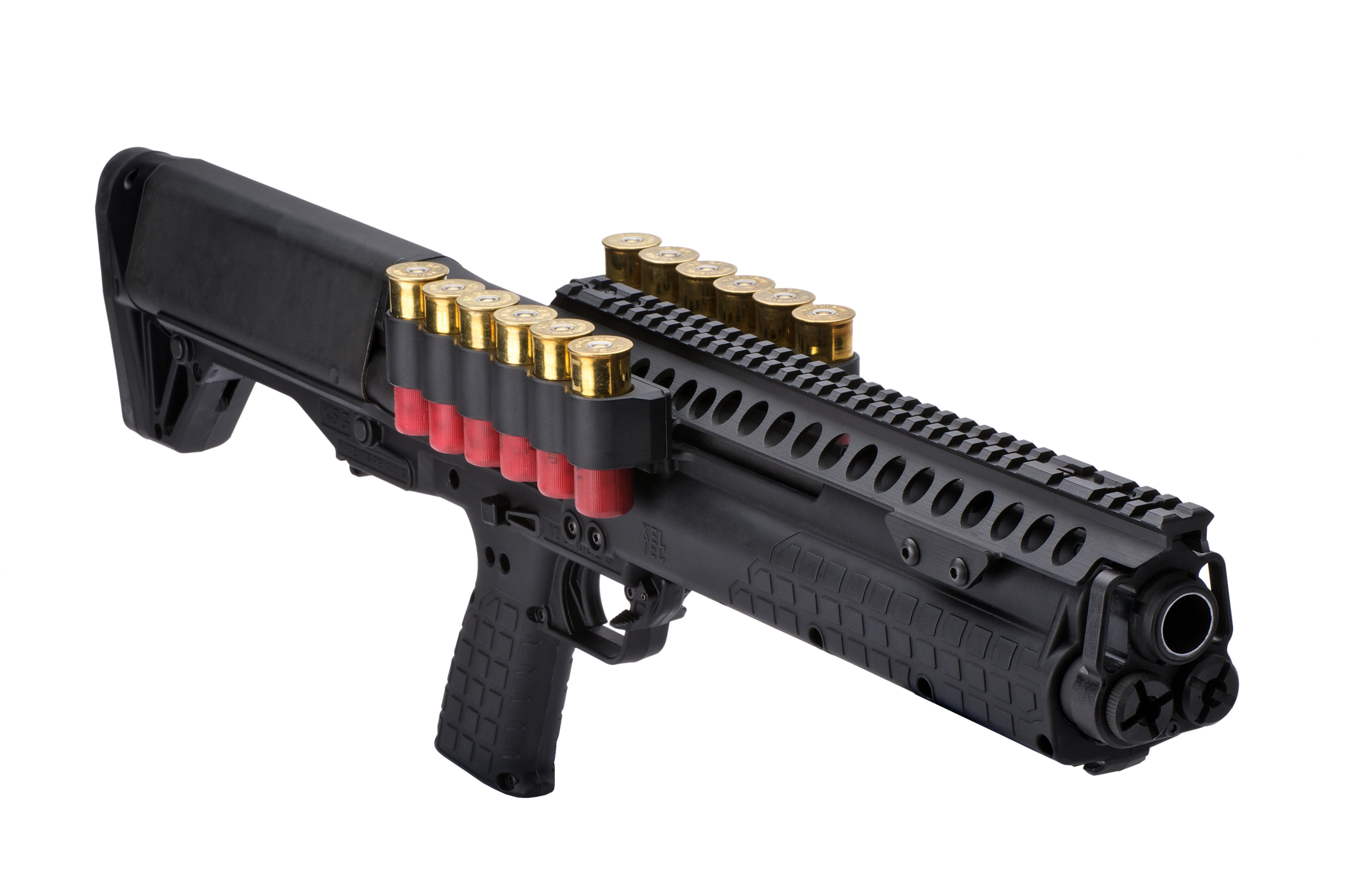 Ket-Tec Shotgun with shells carriers